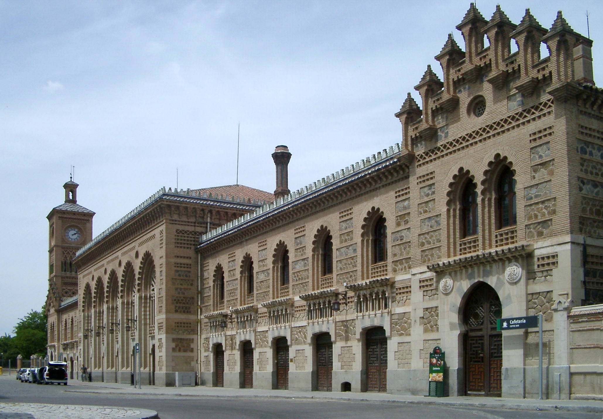 Toledo (Spain) Railway Station, exterior view (street side)